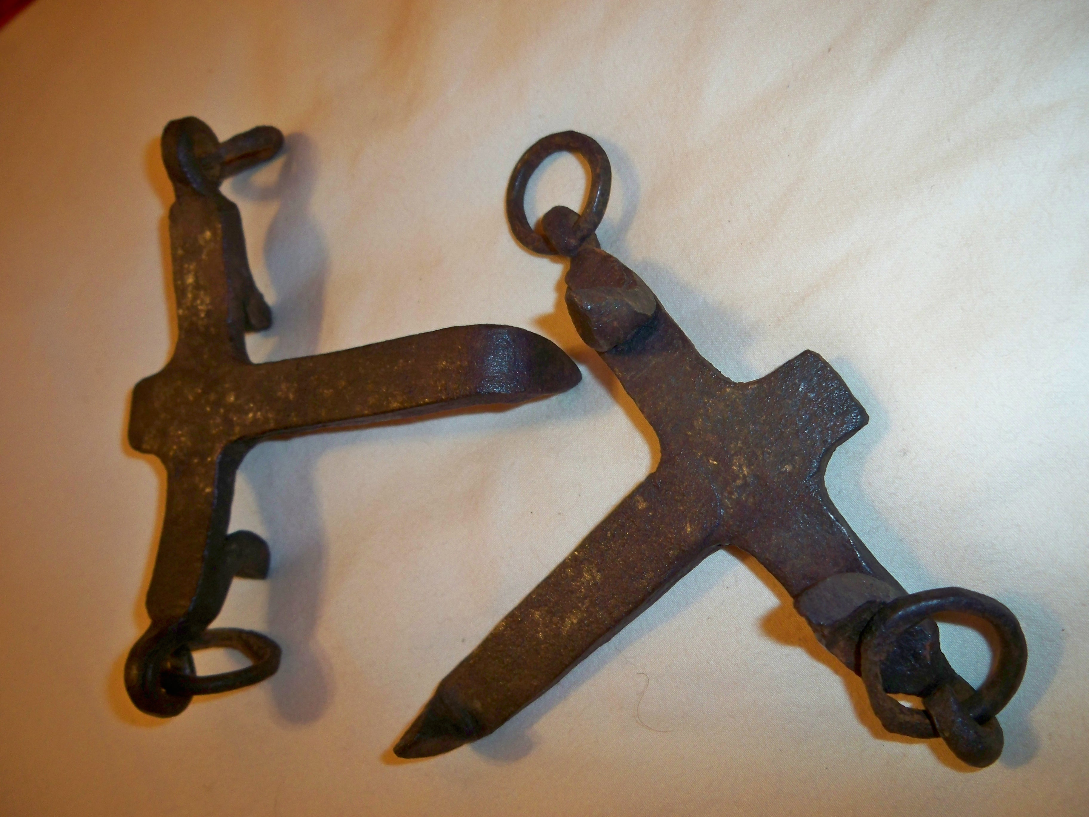 Antique Japanese ashiko, a type of cleat used for climbing and walking on ice or snow.